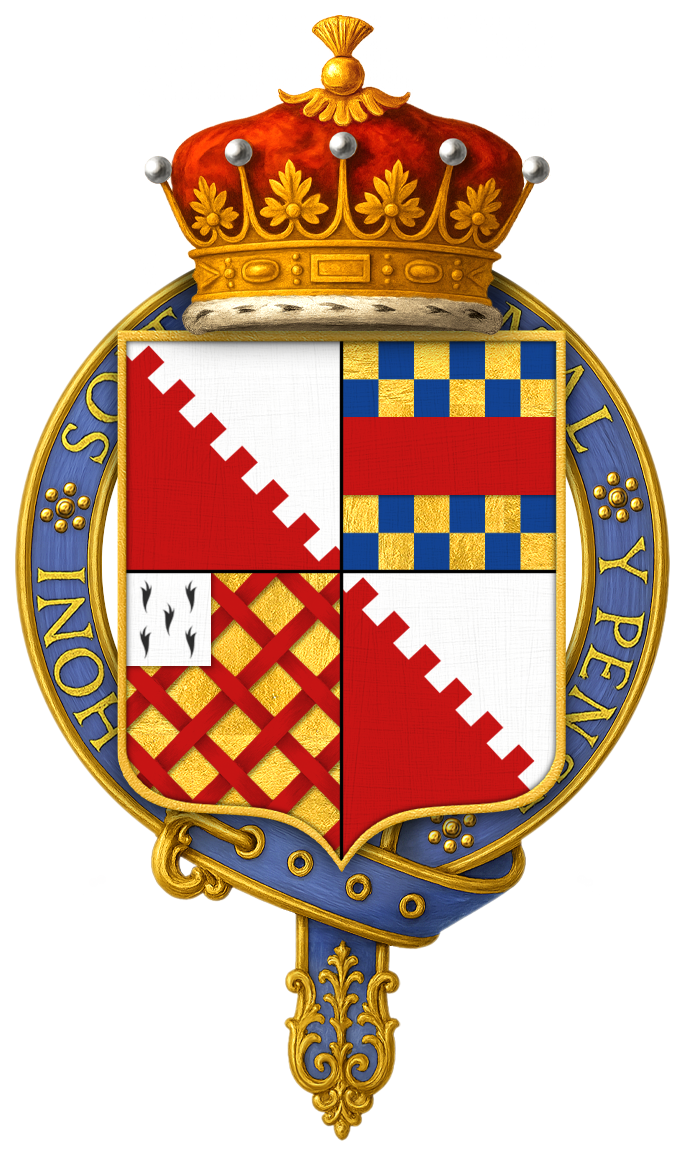 KOG-0548-Richard Boyle, 3rd Earl of Burlington, KG, PC